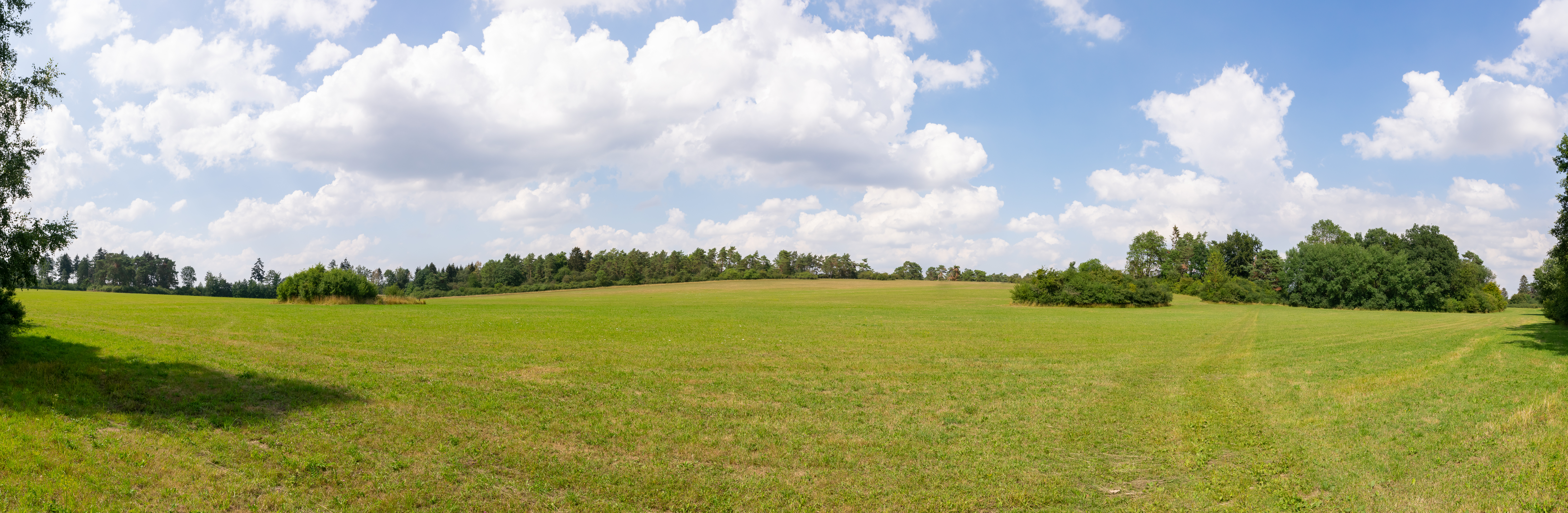 Wandelnsberg nature reserve in Beverungen, Kreis Höxter